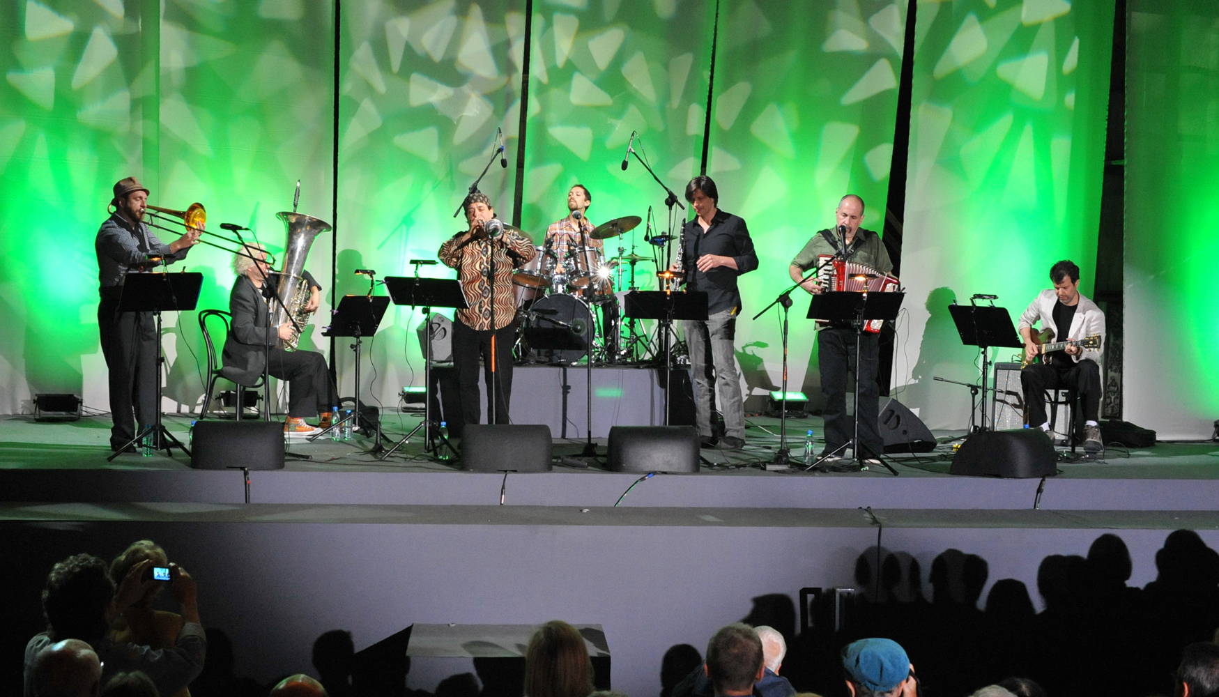 Frank London Brass All Stars klezmer band, with guest Christian David, performing in Warszawa during Singer Festival 2011.